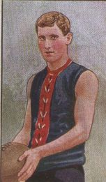 Photo of Charlie Young taken before 1904